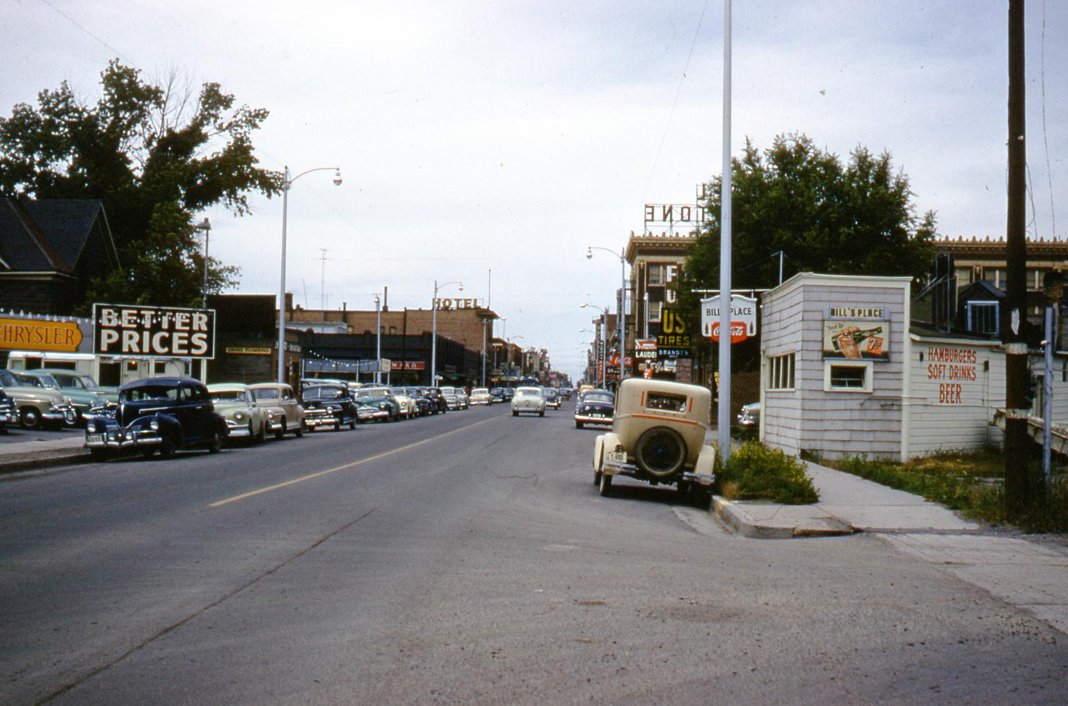 Image Title: American Falls Dam Trip Date: June 1954 Place: Pocatello, Idaho Description/Caption: Hotel where I stopped American Falls [actually Pocatello] Ida. Medium: vernacular color transparency Photographer/Maker: Unknown Cite as: ID-A-0053, Restrictions: There are no known U.S. copyright restrictions on this image. While the digital image is freely available, it is requested that be credited as its source. For higher quality reproductions of the original physical version contact , restrictions may apply.